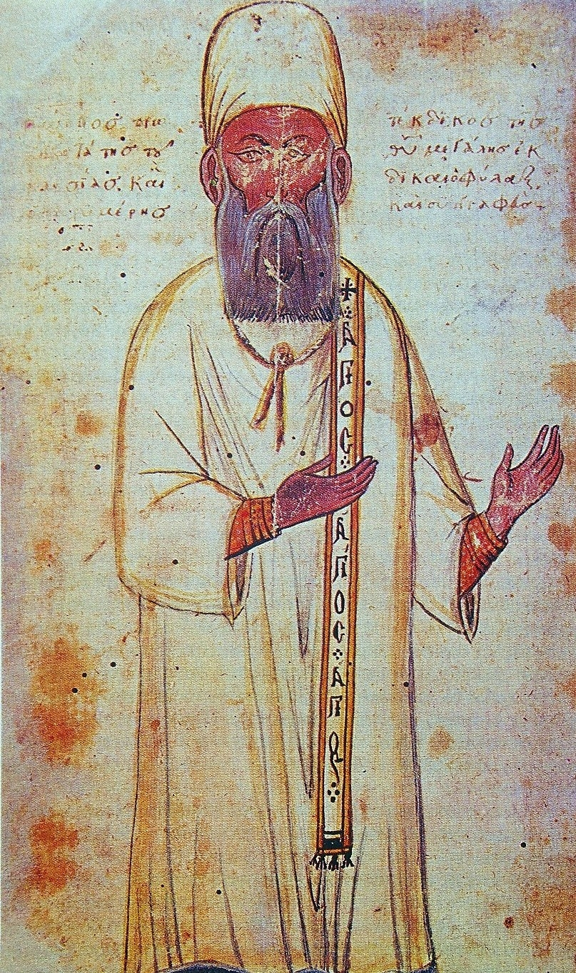 The Byzantine cleric, scholar and historian George Pachymeres (1242 – c. 1310)